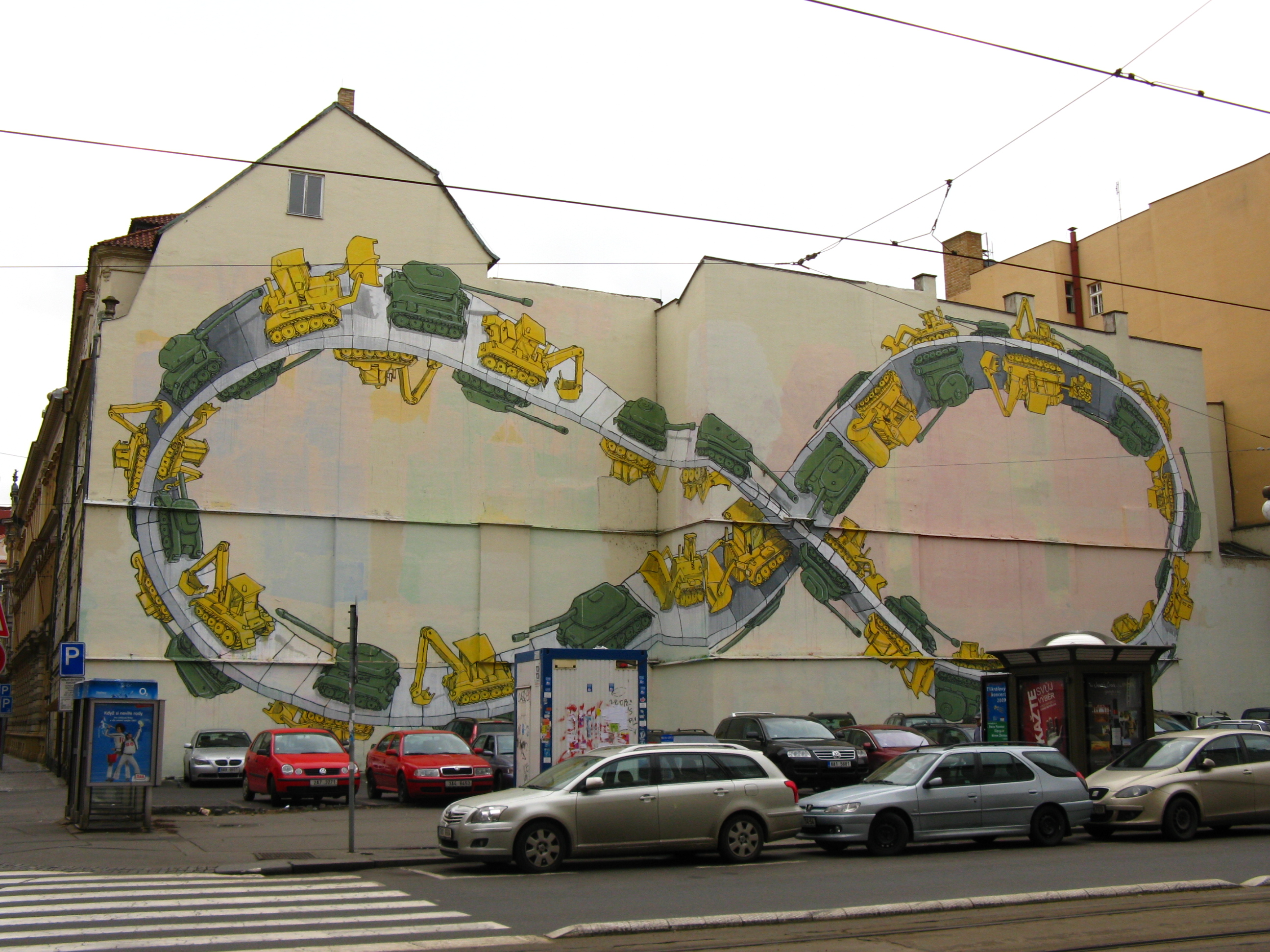 Möbius strip in Prague with tanks and Bulldozer, created in the time of Names Fest